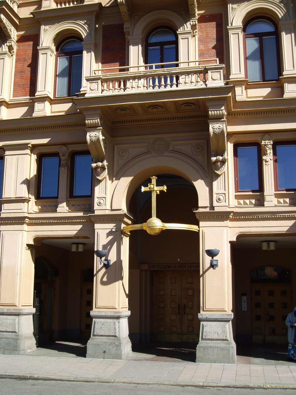 Sankta Eugenia, church in Stockholm